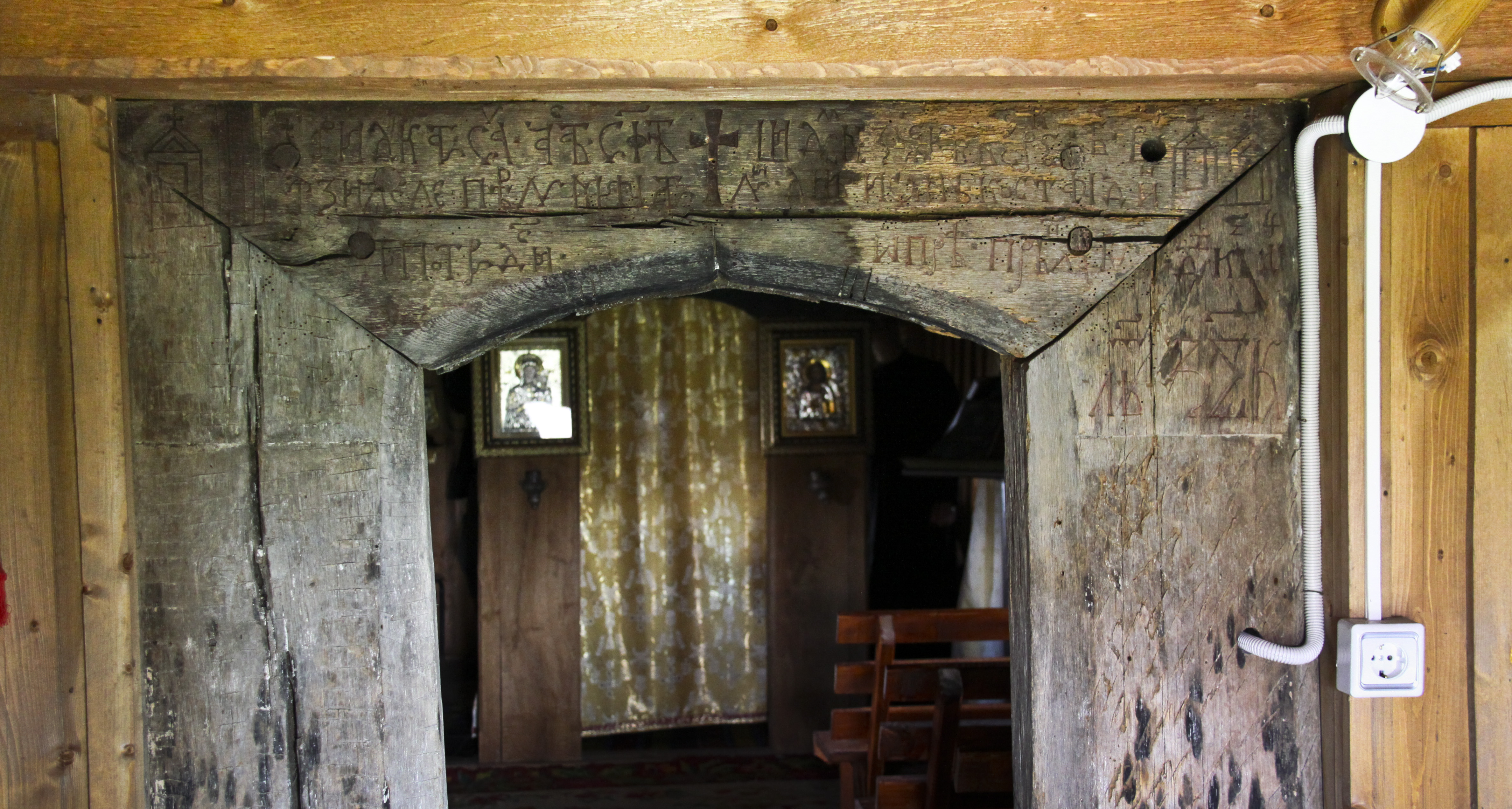 Bujoreni, Teleorman county, Romania: the wooden church.